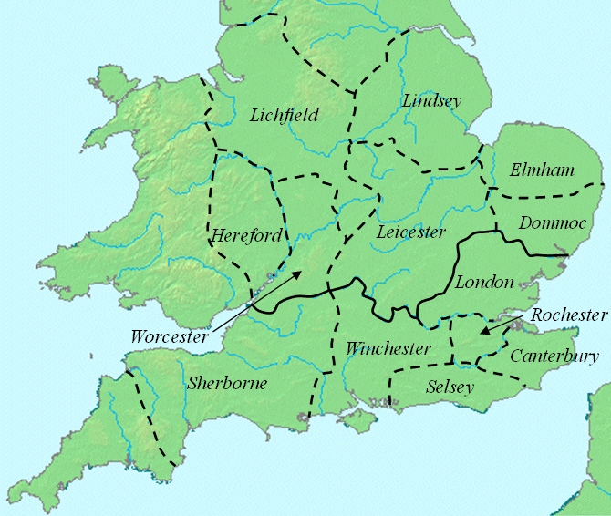 This map shows dioceses in England during the reign of Offa. The boundary between the archdioceses of Lichfield and Canterbury is shown in bold. This file was created using DMIS. On that site it is stated that "We do not claim copyright on the images, so you can use them for Wikipedia." This map is based on a map found in Patrick Wormald's "The Age of Bede and Aethelbald", in James Campbell et al., The Anglo-Saxons, p. 71.